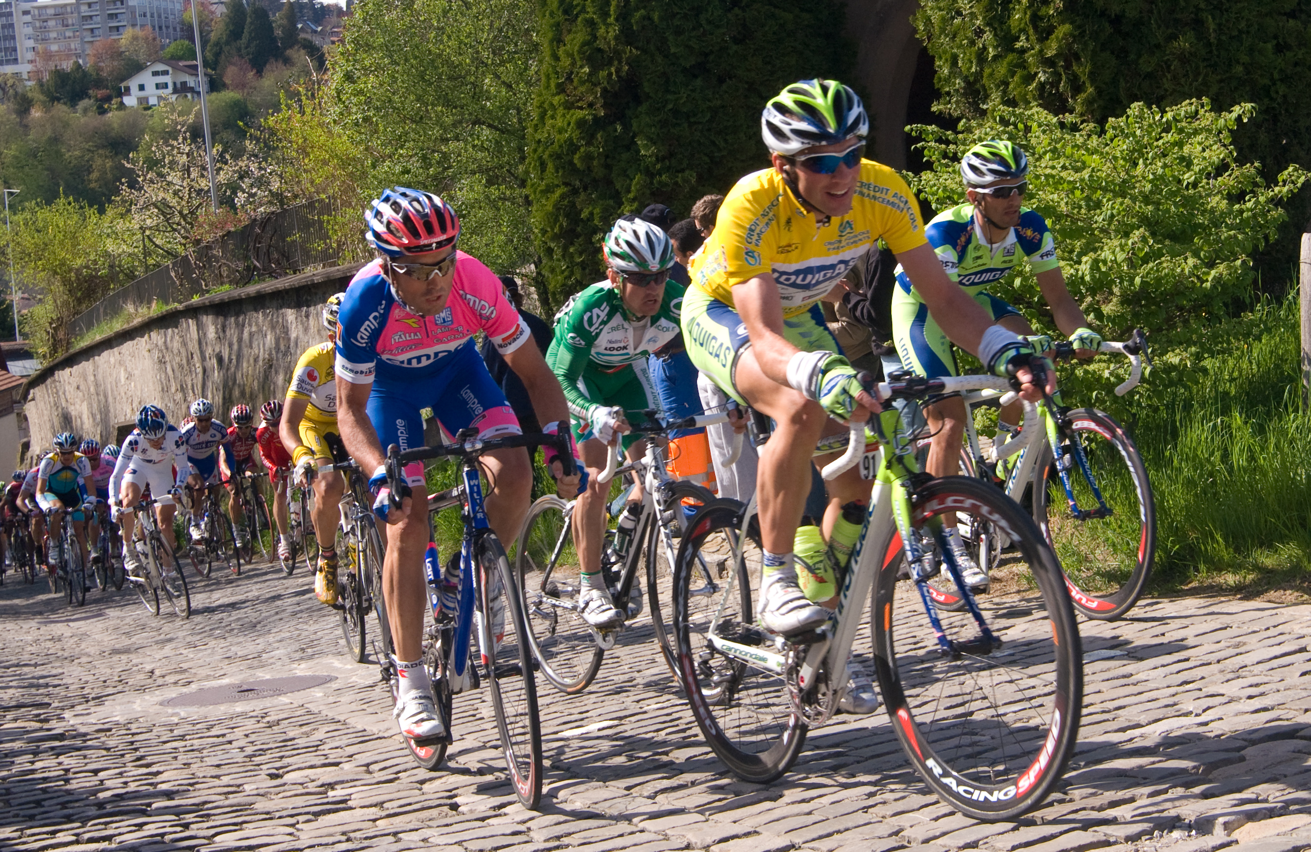 2nd stage of the Tour de Romandie 2008.